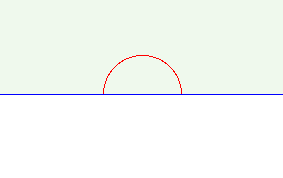 Graphic of 180 degrees angle, by Toobaz (